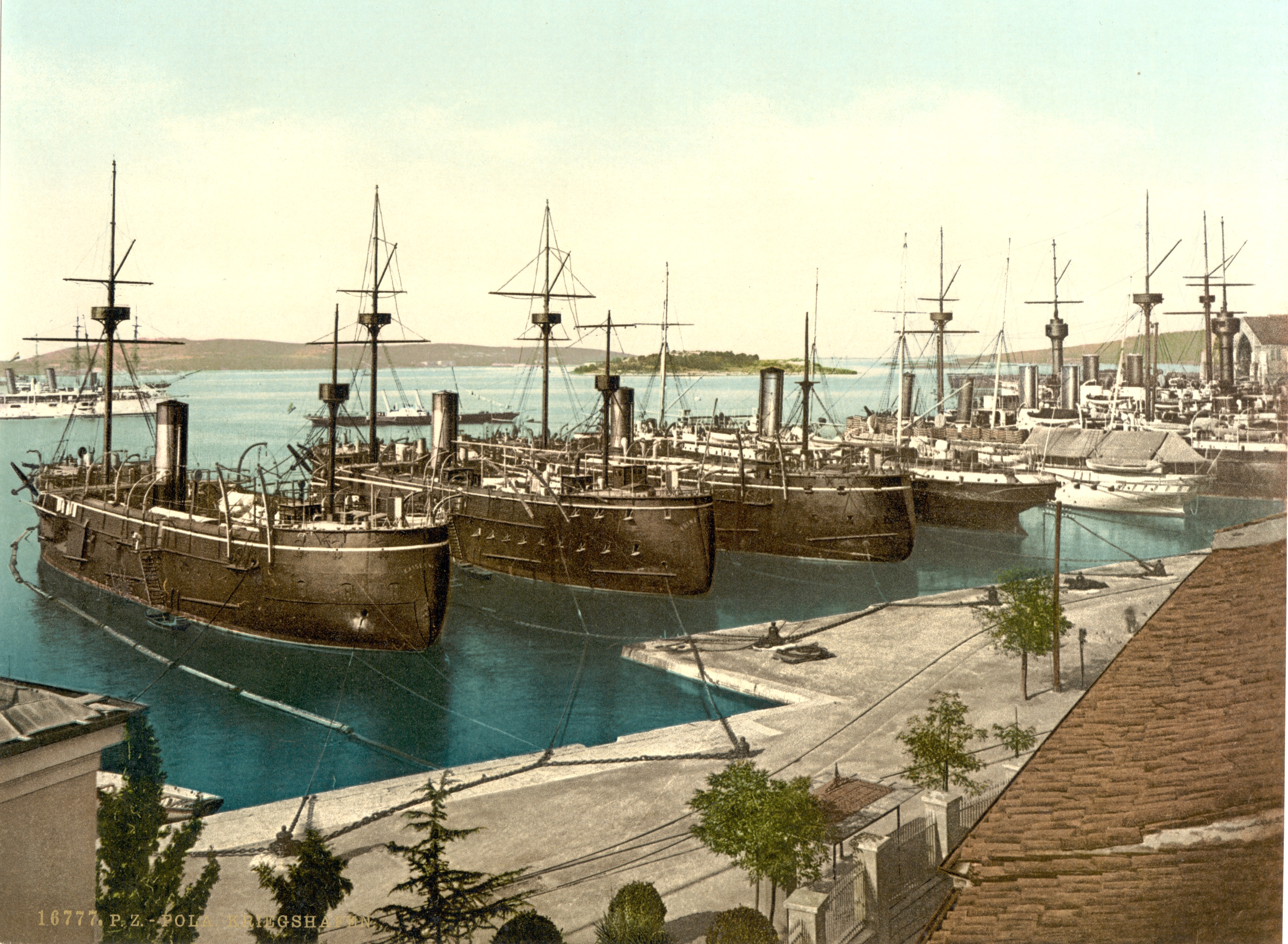 Austro-Hungarian naval yard at Pola (modern Pula); ca. 1890.